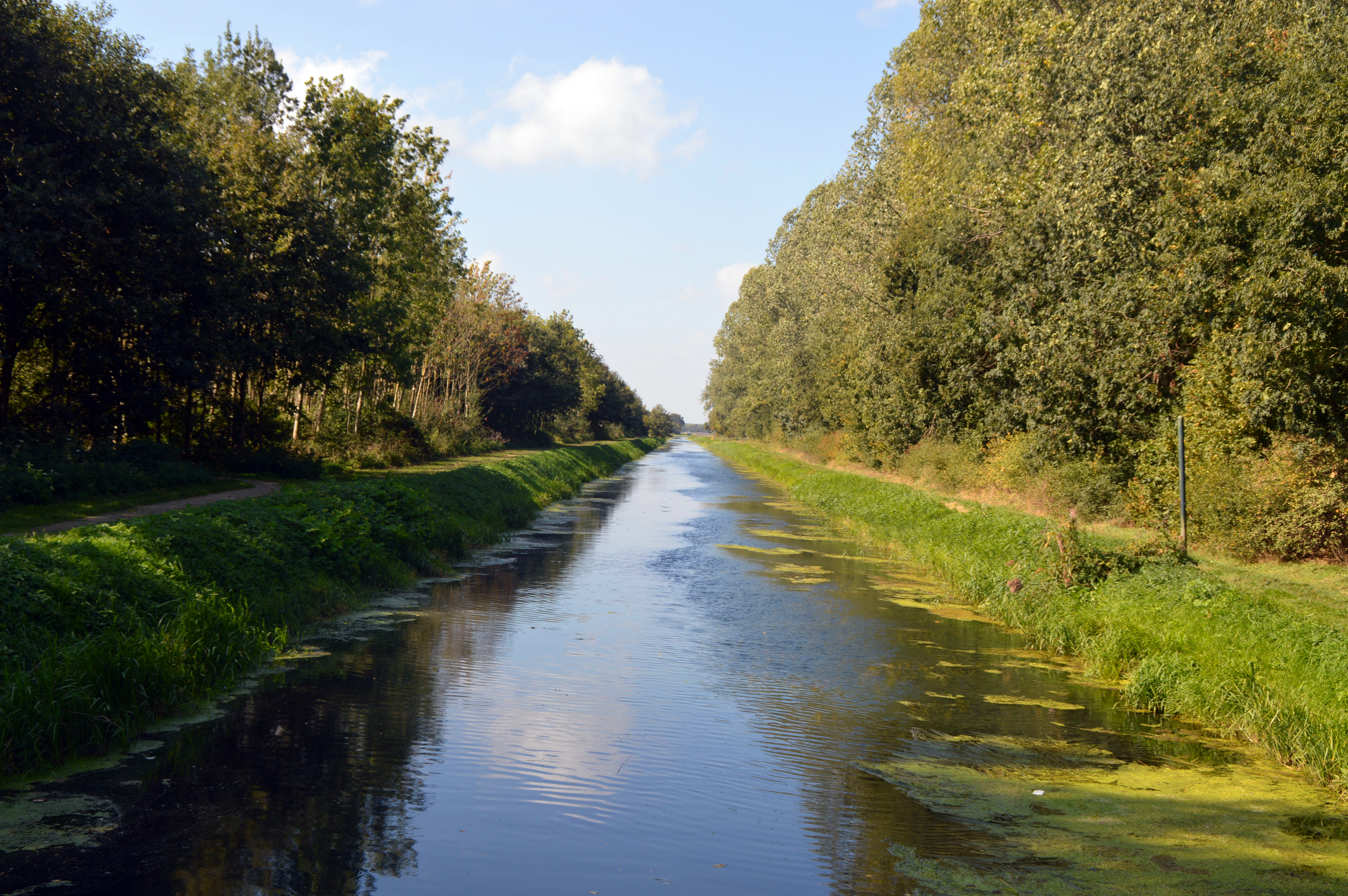 Nieuwe Wetering, Bijsterhuizen, Lindenholt, Nijmegen